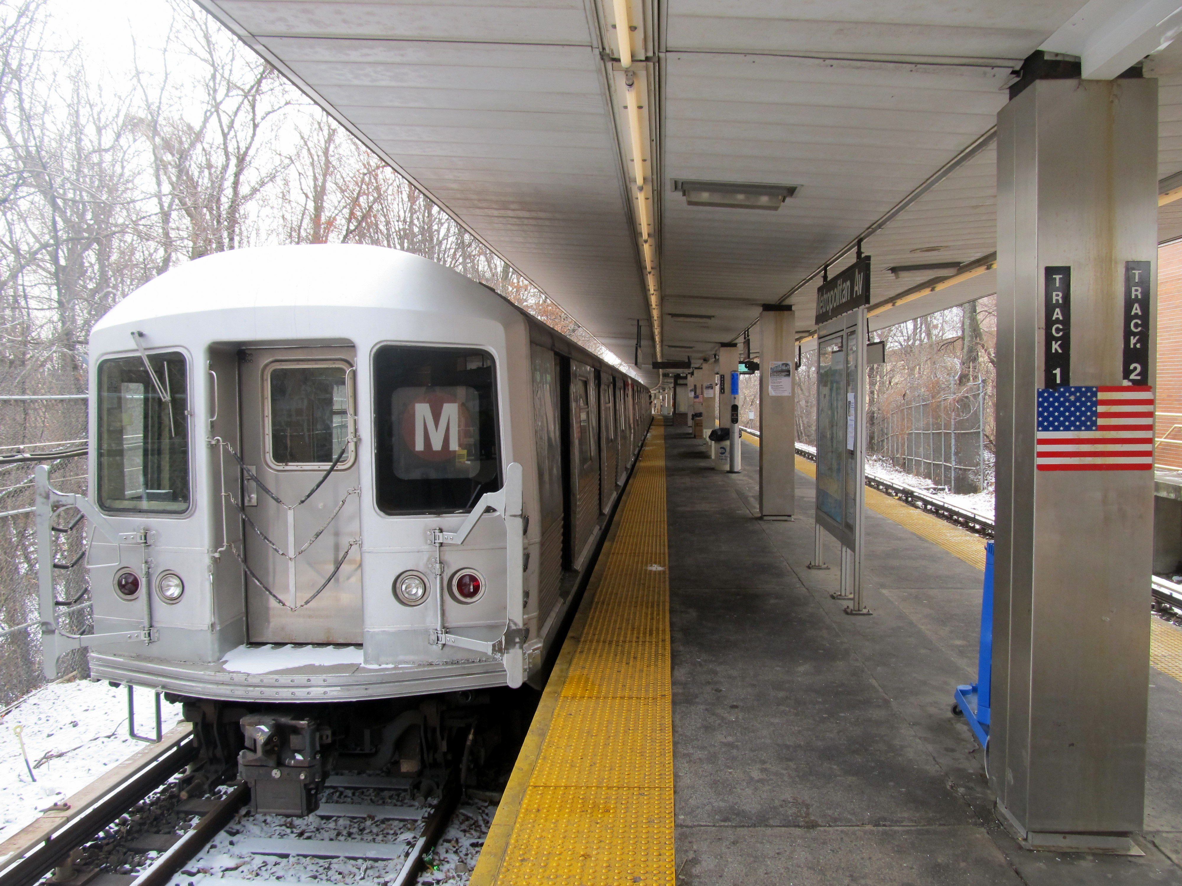 M shuttle train at Middle Village – Metropolitan Avenue station in December 2017